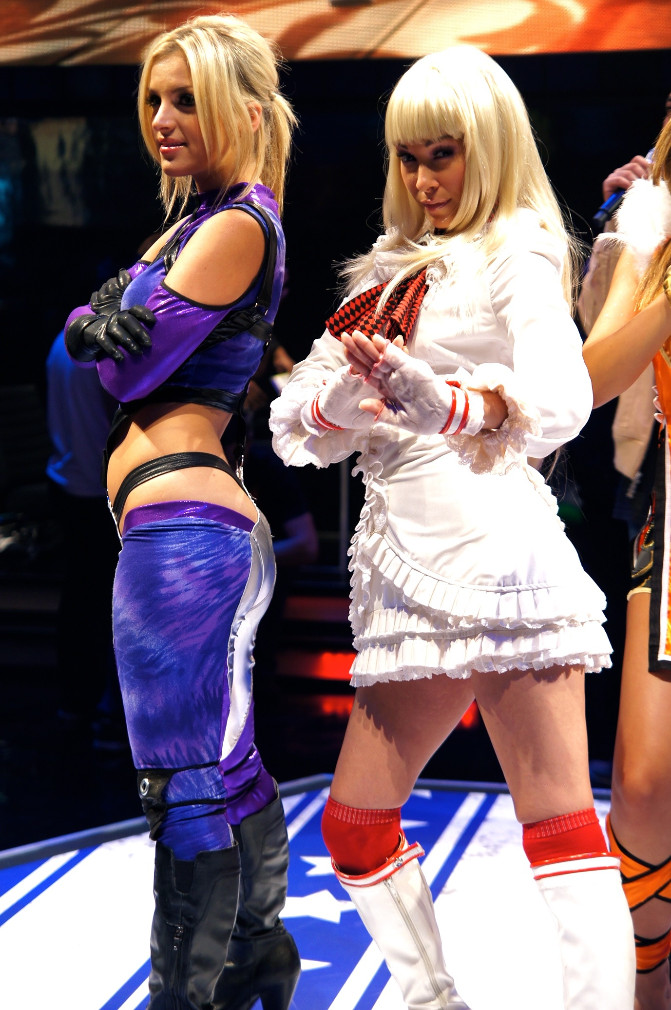 Promotion of the fighting game Tekken Tag Tournament 2 at Electronic Entertainment Expo 2012.